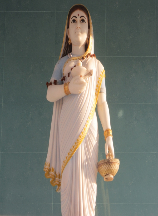 Ahilya Mata Statue at Datta Temple,SahastraDhara,Jalkoti